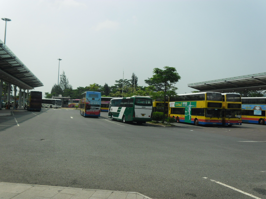 Shenzhen Bay Port Bus Terminus (Hong Kong side)